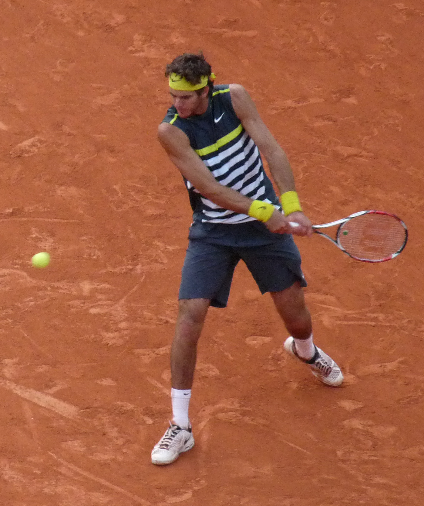 Juan Martín del Potro against Roger Federer in the 2009 French Open semifinals